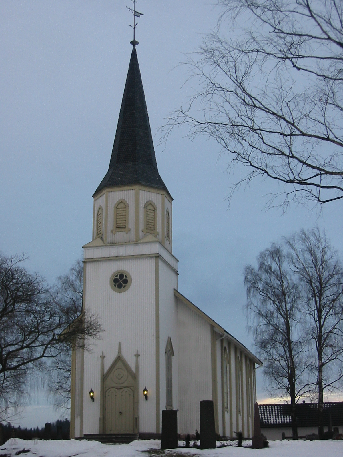 Undrumsdal kirke in Re, Norway 2002